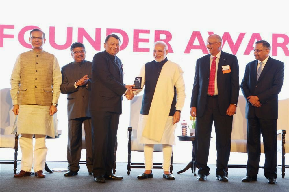 Harish Mehta was honored by Narendra Modi, Prime Minister of India for his 25 years of exemplary contribution to NASSCOM in 2017.